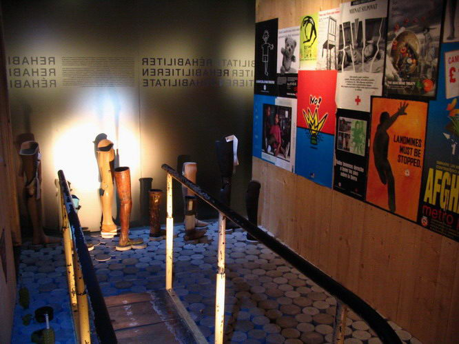 Part of Room 11 of the International Red Cross and Red Crescent Museum in Geneva, Switzerland, showing the impact of land mines